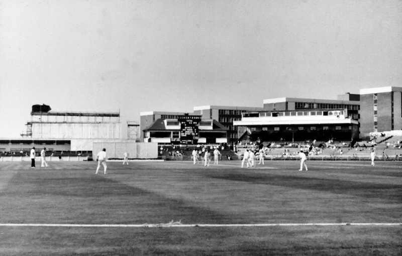 Old Trafford Cricket Ground, near to Chorlton-Cum-Hardy, Manchester, Great Britain. Looking across Old Trafford cricket ground from the Warwick Road end during a match between Lancashire and the Australian Tourists. There have been many developments at the ground since this photograph was taken in 1972 (eg see SJ8195 : Old Trafford Cricket Ground ). This year (2011), the square, which currently runs east-west is to be rotated by 90 degrees, so future views will look very different.